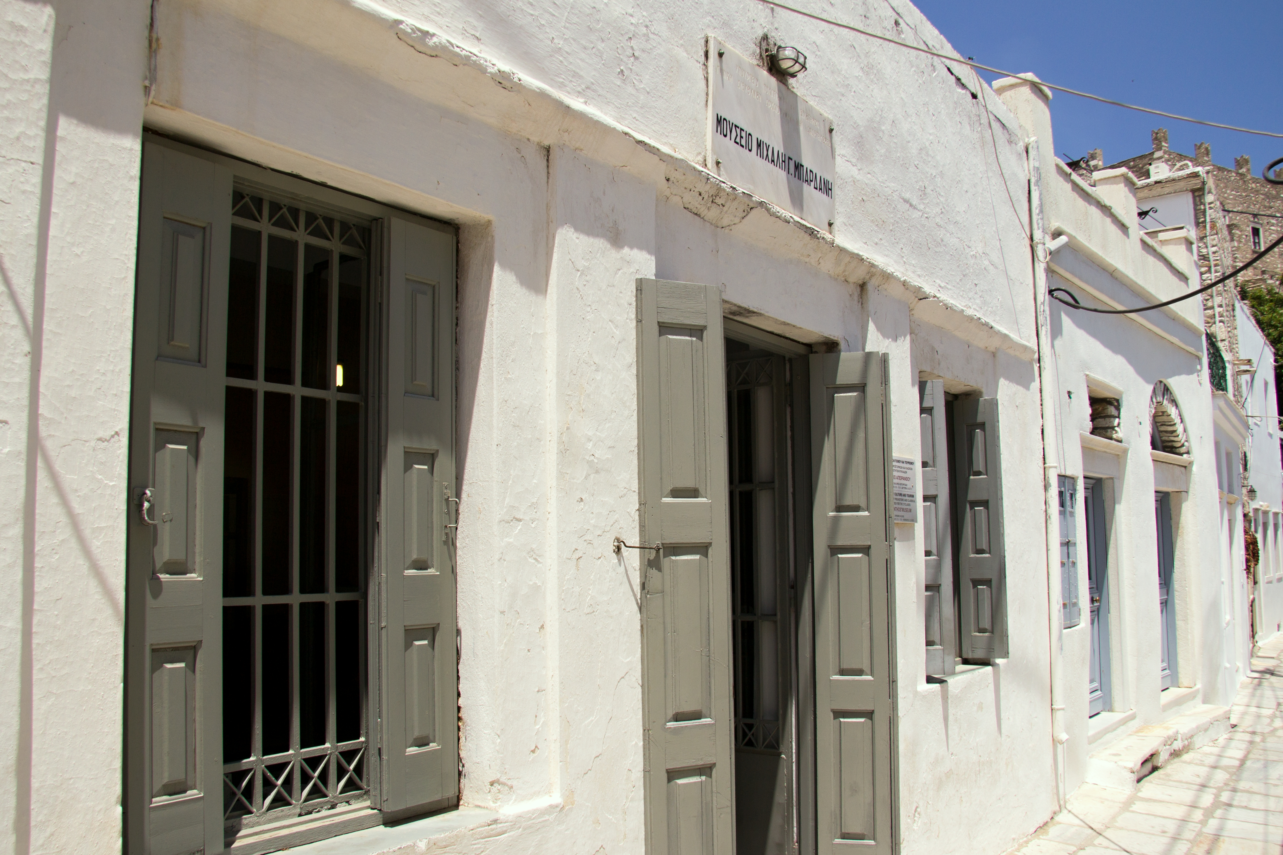 The building of the Archaeological Museum of Apeiranthos on Naxos.